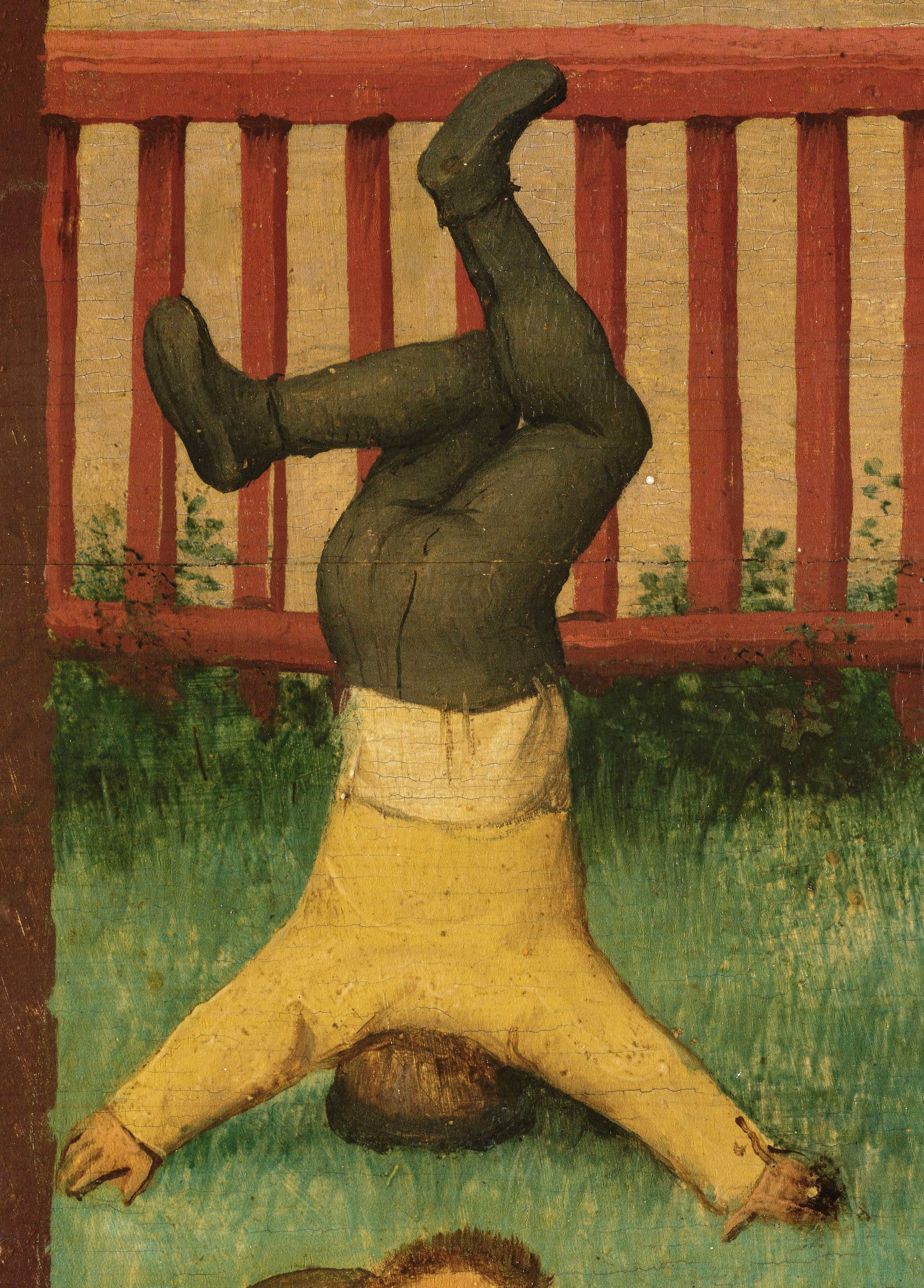 Detail from Children's Games by Pieter Bruegel the Elder